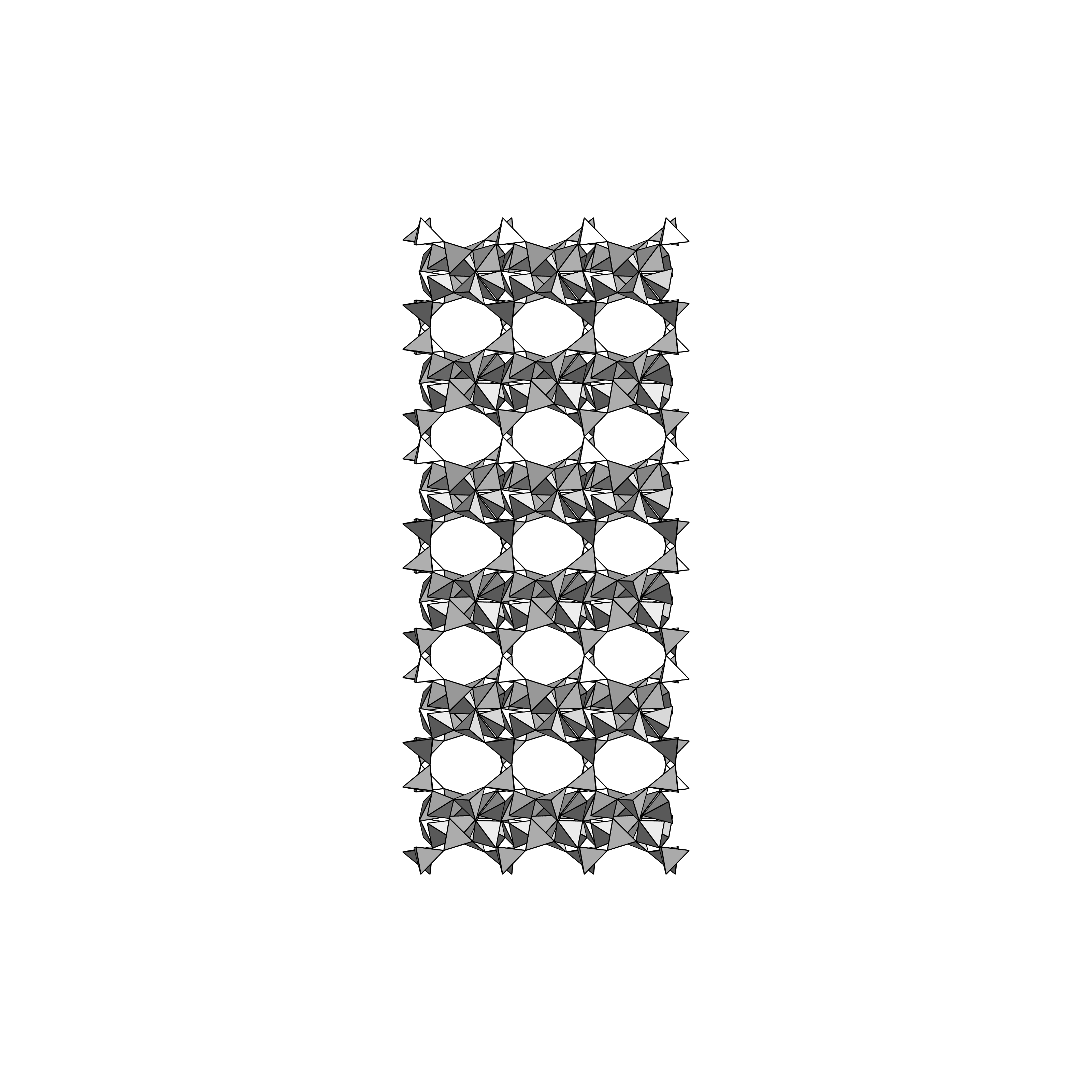 Heulandite silicate framework, view along a-axis Data from: Merkle A B., Slaughter M. (1968): Determination and refinement of the structure of heulandite, American Mineralogist 53, pp. 1120-1138 Calculation of image data: Larry W. Finger, Martin Kroeker, and Brian H. Toby, DRAWxtl, an open-source computer program to produce crystal-structure drawings, J. Applied Crystallography V40, pp. 188-192, 2007 Rendering: POVRAY